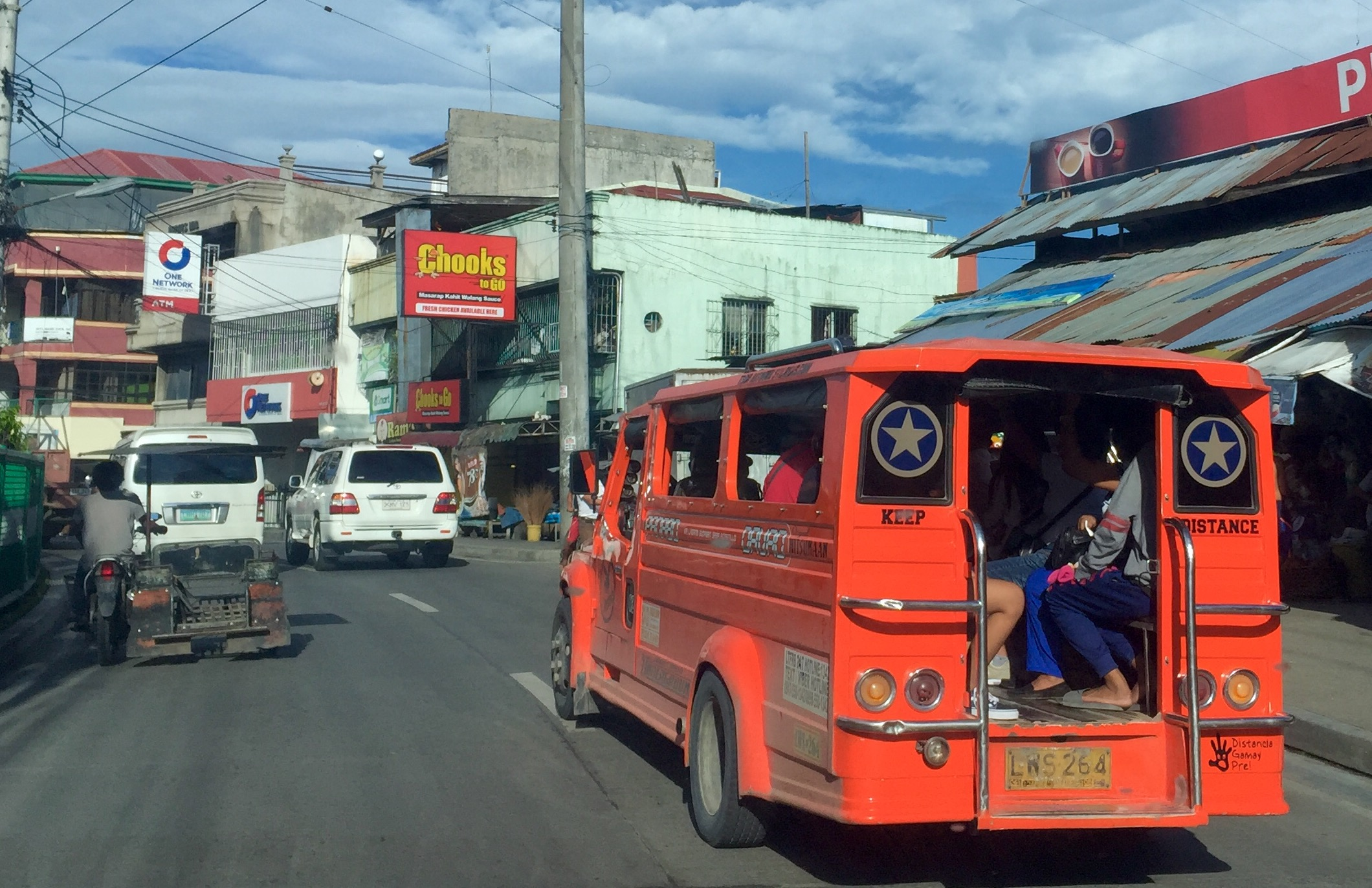 Jeepneys are the most popular means of public transportation in the Philippines.